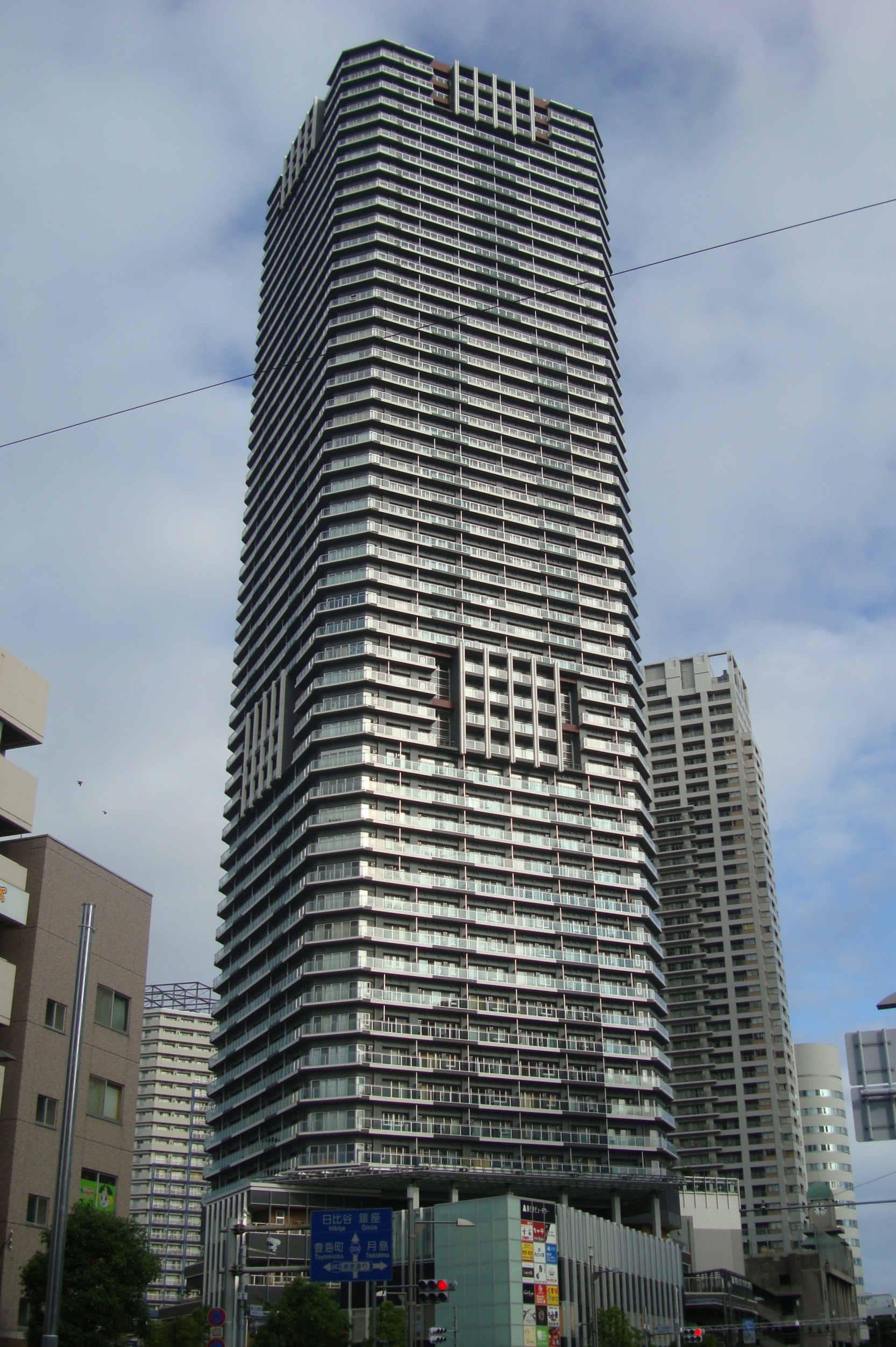 The Kachidoki View Tower, Kachidoki, Chuo city, Tokyo